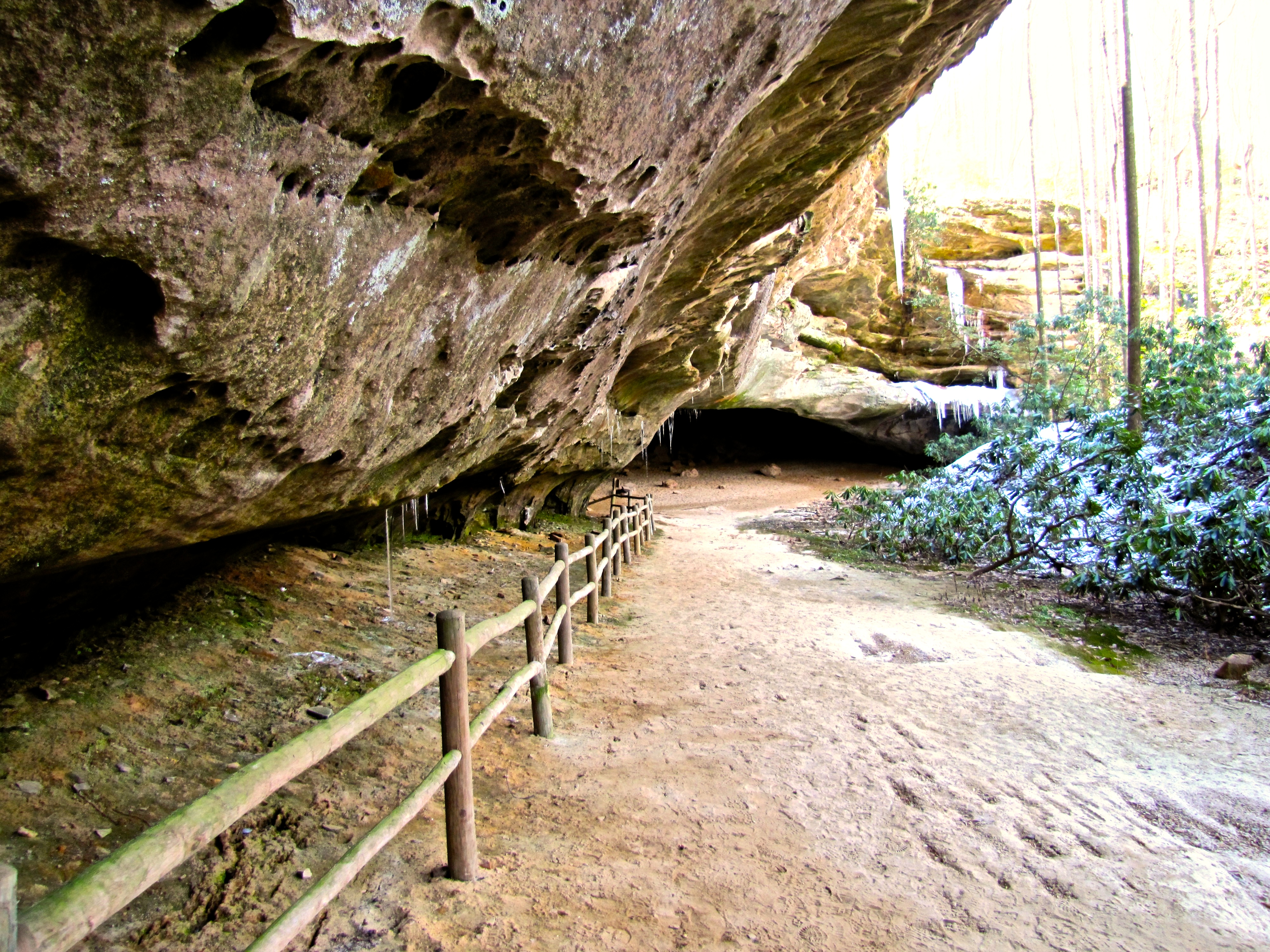 The entrance to Hazard Cave at Pickett State Park in Pickett County, Tennessee, USA. The fence railing is in place to protect the fragile Cumberland sandwort (Arenaria cumberlandensis) populations, which are endemic to the rockhouses of the Cumberland Plateau.